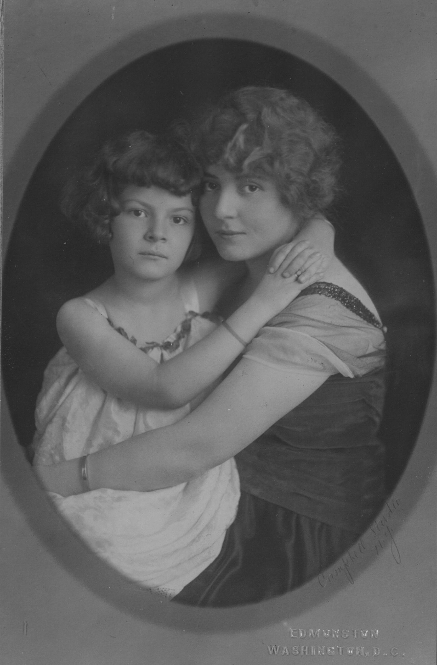 Mrs. Charles de Loosey Oelrichs is one of the prominent members of the Congressional Union for Woman Suffrage. Mrs. Oelrichs is one of the most beautiful young matrons in New York and Newport society. She has recently become interested in suffrage and took an active part in the Dansante given by the Congressional Union at Marble House, Newport, [Rhode Island], Mrs. O. H. P. Belmont's beautiful summer home.